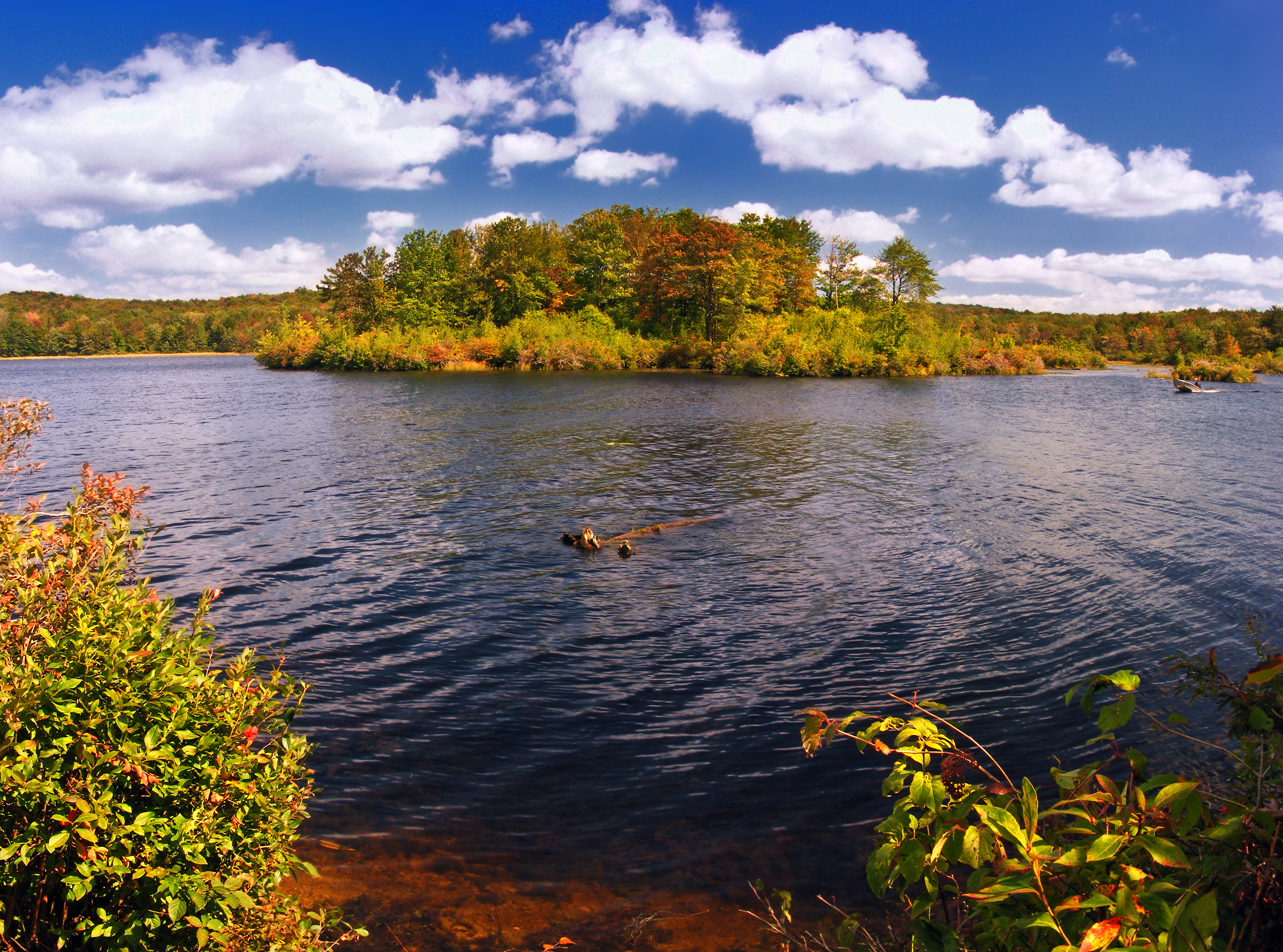 Gouldsboro State Park, Monroe and Wayne Counties.